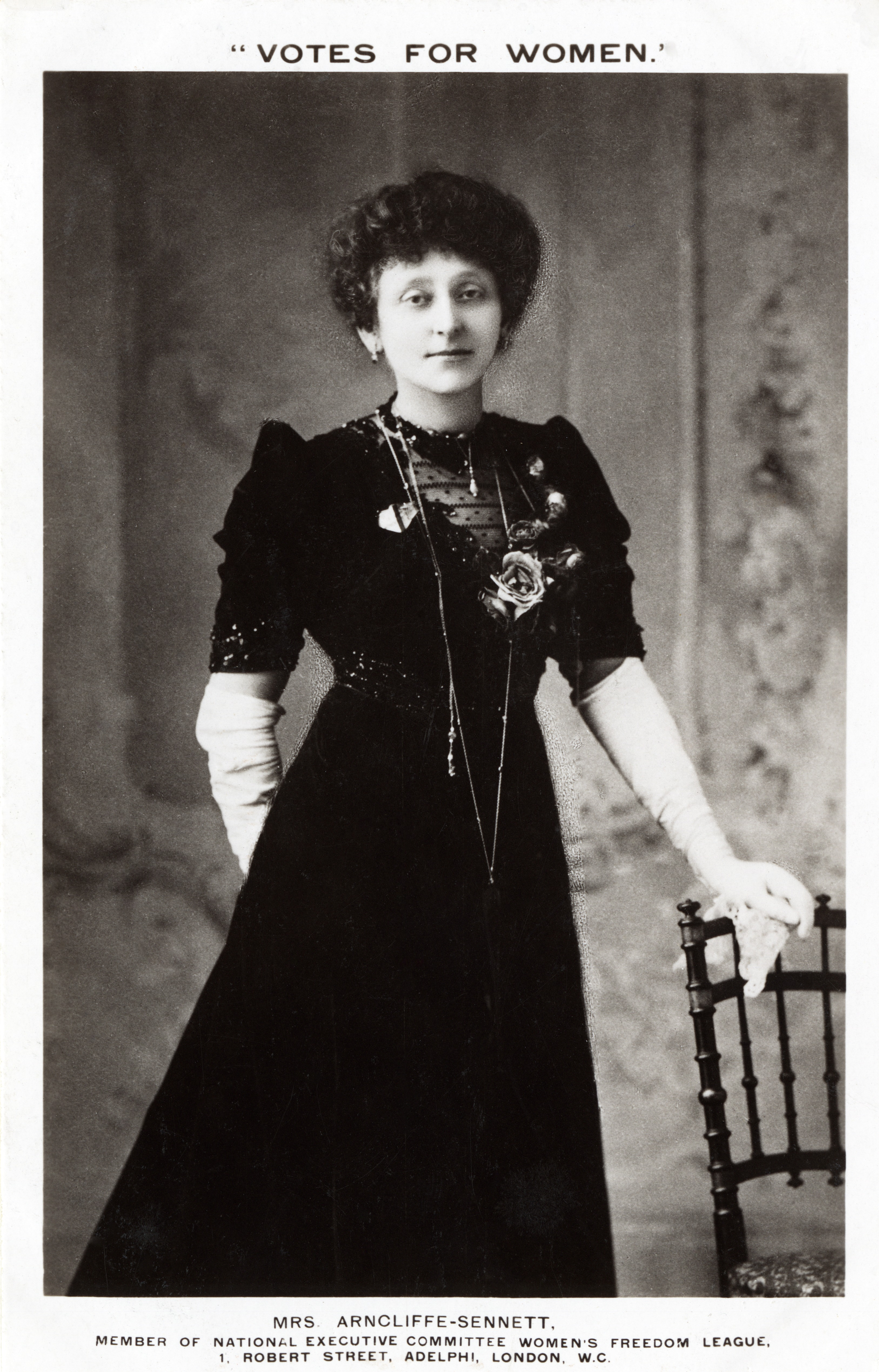 TWL.2002.11Postcard, printed, cardboard, monochrome photographic studio portrait of Maud Arncliffe-Sennett, white border, full-length, hand resting on a chair, printed inscription front: 'VOTES FOR WOMEN. MRS. ARNCLIFFE-SENNETT. MEMBER OF NATIONAL EXECUTIVE COMMITTEE WOMEN'S FREEDOM LEAGUE, 1, ROBERT STREET, ADELPHI, LONDON, WC', printed inscription reverse: 'Published by THE LONDON COUNCIL OF THE WOMEN'S FREEDOM LEAGUE, 1, Robert Street, Adelphi, WC'.